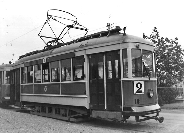 ASEA/AEG tram no. 18 in Turku, Finland